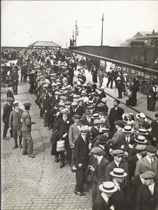 Unique photograph of Preston Station as it was at the time of the Pals departure, Grid ref - SD 54008 29428